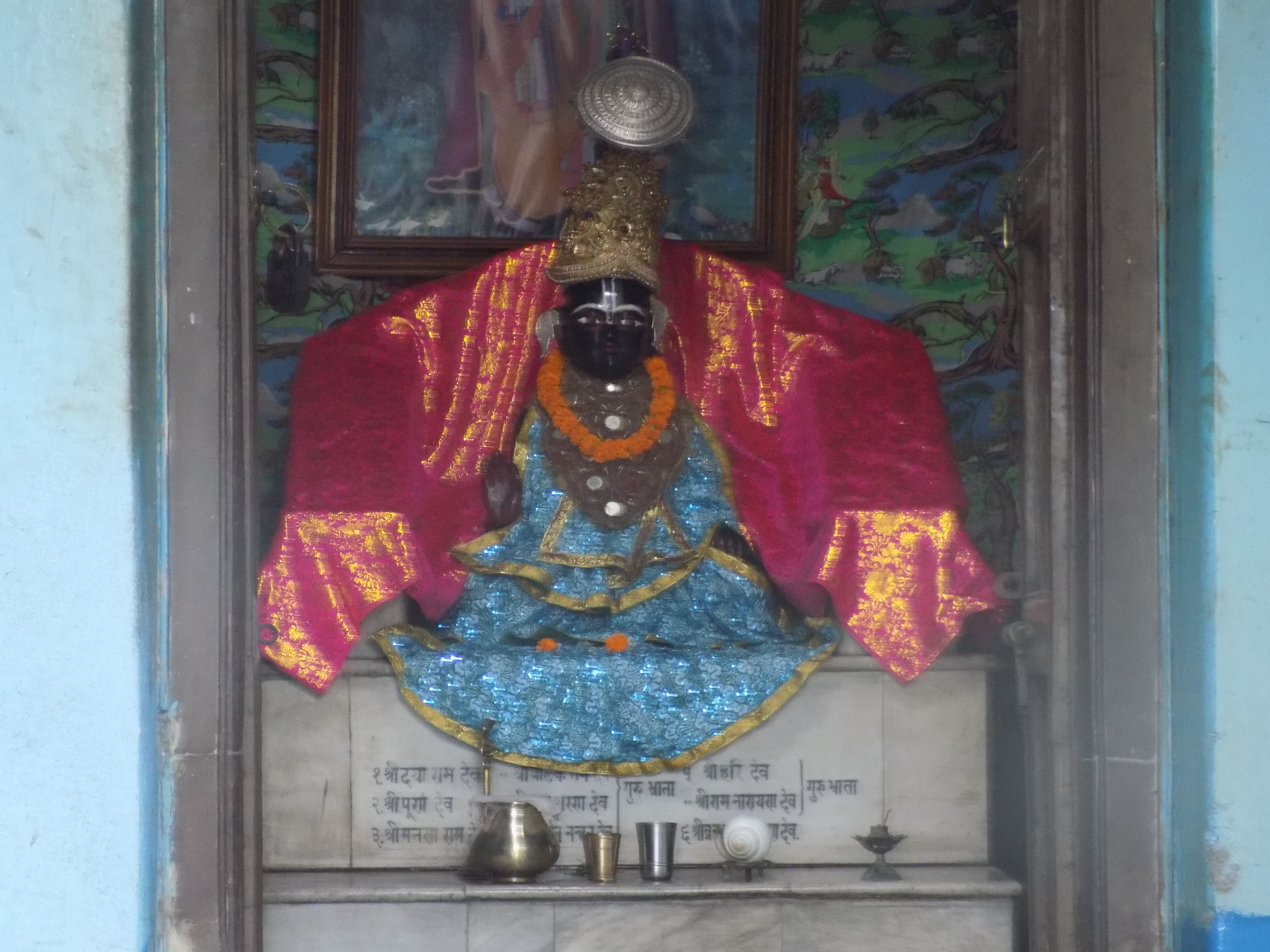 Nimbarkacharya's holy icon within the Acharya sannidhi at the Ukhra Nimbarka Peeth Mahanta Asthal(West Bengal)